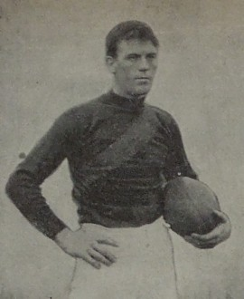 Photograph of Allan Belcher in 1910